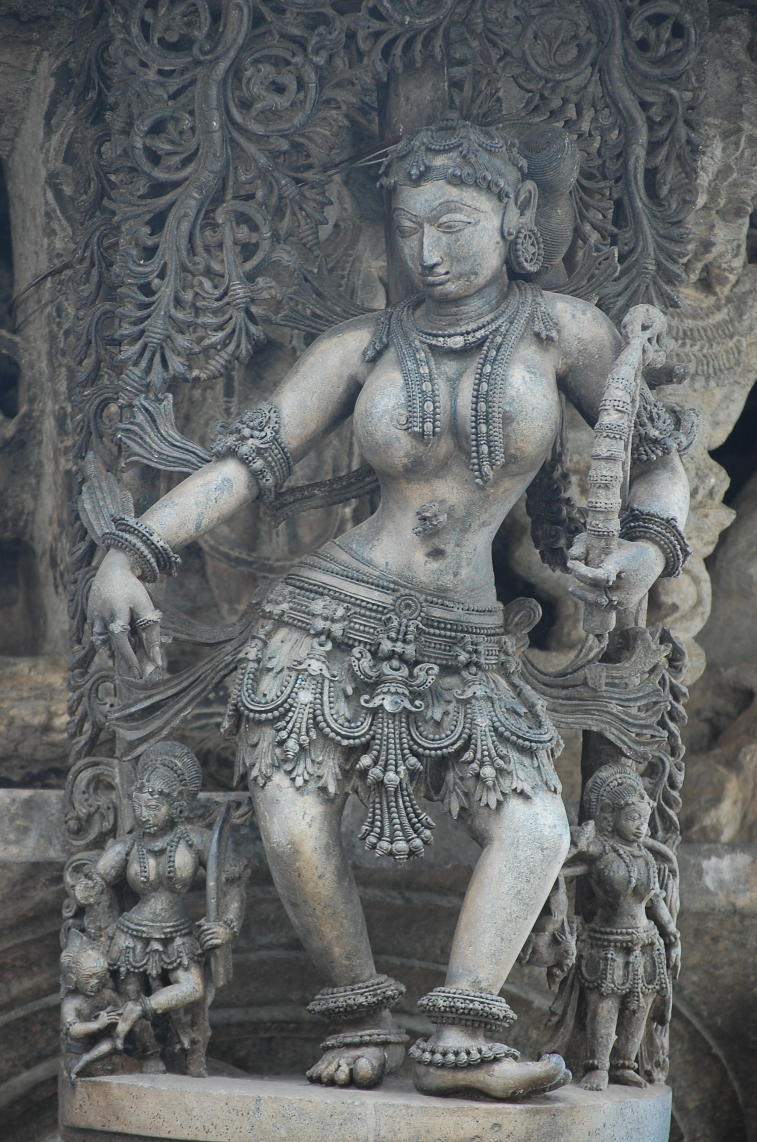 shilabalika 3